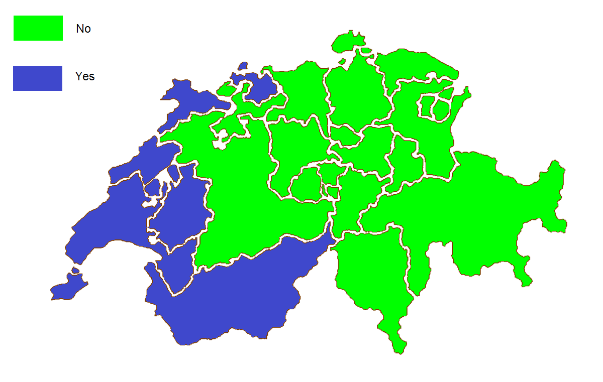 Swiss European Economic Area membership referendum, 1992. Result by Cantons.